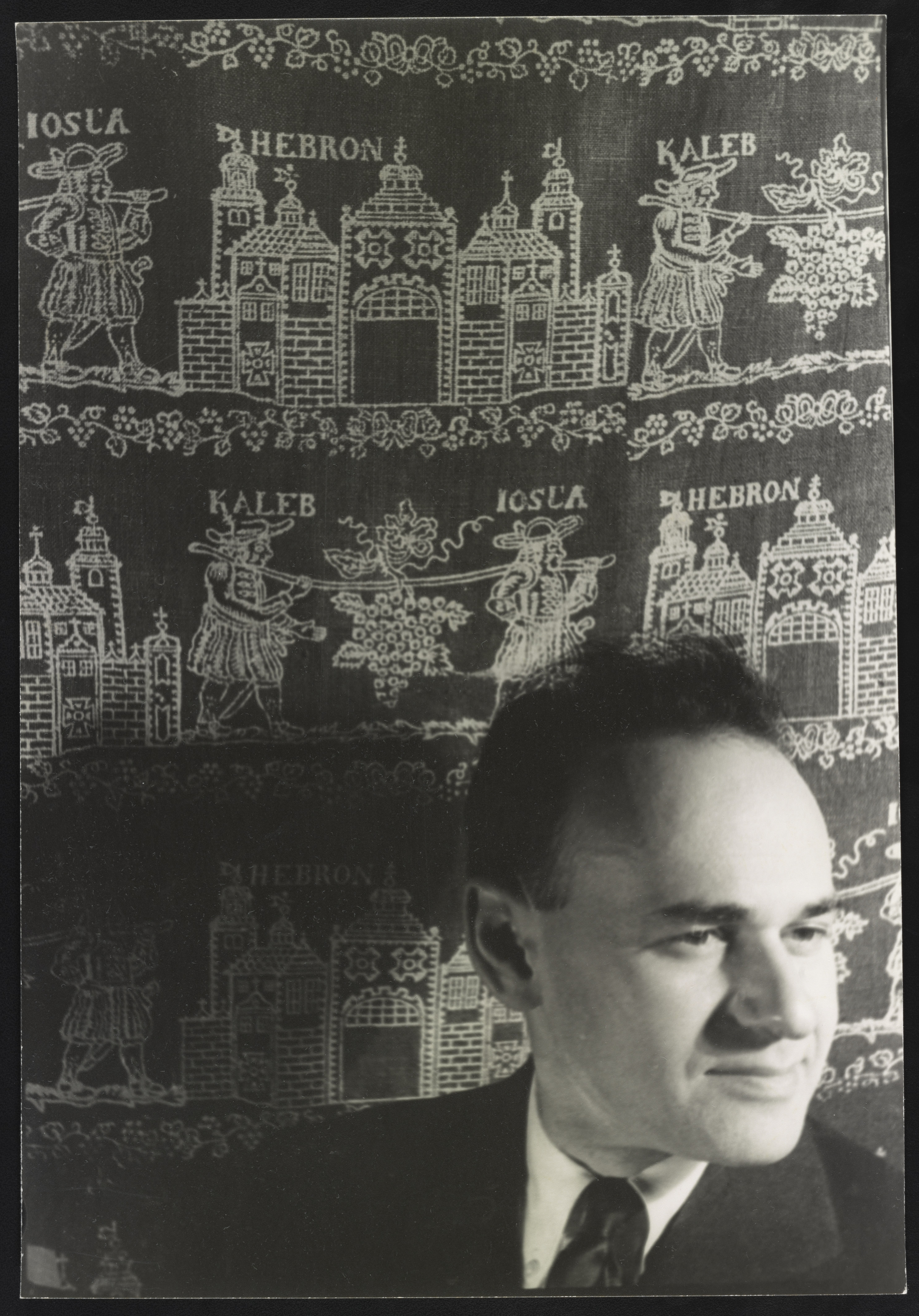 Title: Portrait of Gilbert Seldes Abstract/medium: 1 photographic print : gelatin silver.